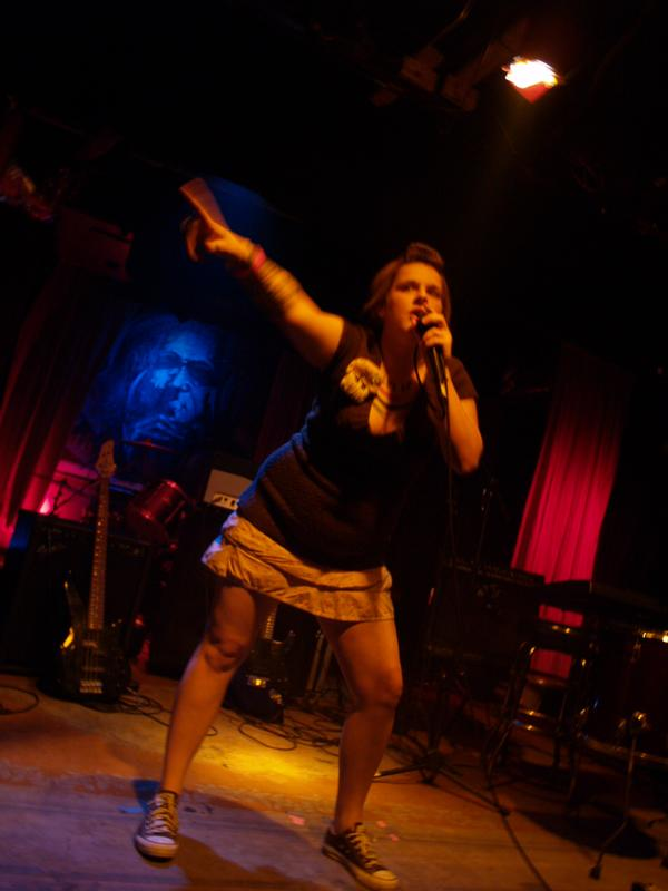 Mc Router at the wreck room fort worth texas